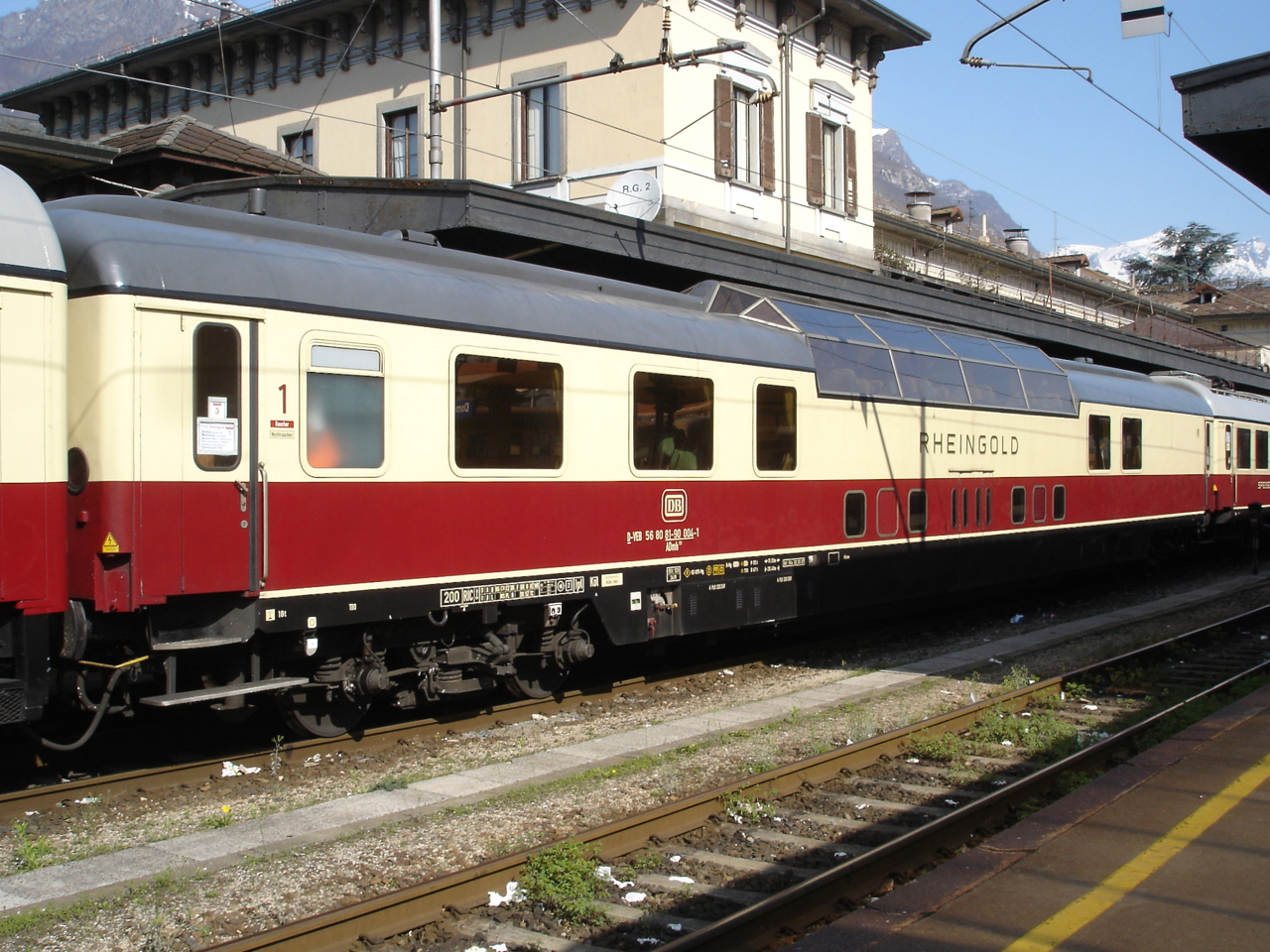 ADmh101 56 80 81-90 004-1 D-VEB at Domodossola train station.